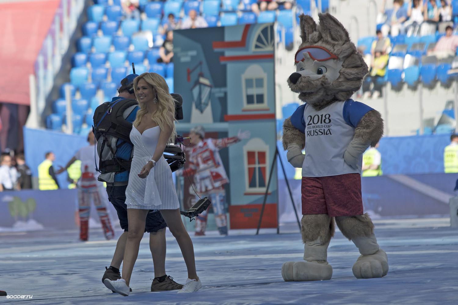 The opening of the Confederations Cup 2017 in St. Petersburg